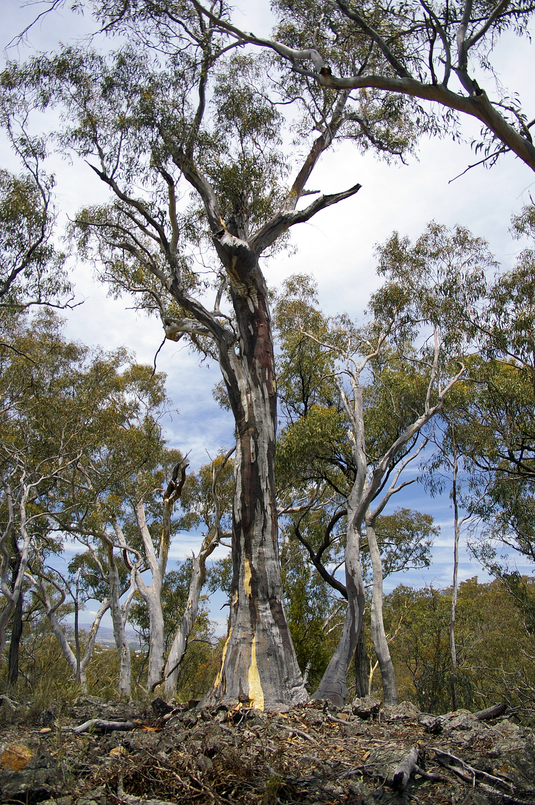 Scribbly Gum (Eucalyptus haemastoma) growing on rocks on Black Mountain in the Australian Capital Territory.